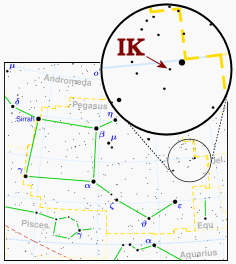 This illustration shows the location of the star IK Pegasi within the constellation of Pegasus. The source for the background map is the illustration Image:Pegasus constellation map.png by Torsten Bronger. The later is licensed under GNU Free Documentation License, Version 1.2.